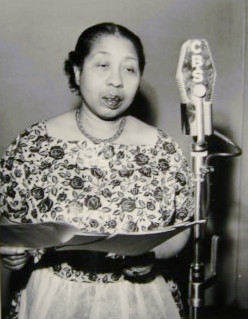 Amanda Randolph as "Beulah" on the radio show of the same name. Copyright details This photo was produced prior to 1964 and has no copyright markings nor any photographer's marks. It can be dated by Amanda Randolph's time in the role of Beulah on radio; she assumed the role from her sister, Lillian Randolph, in 1953. The radio show ended in 1954. A copyright search at for Beulah turns up no audio-related material that would be pertinent to the radio program. There is no evidence that a copyright is claimed on this material